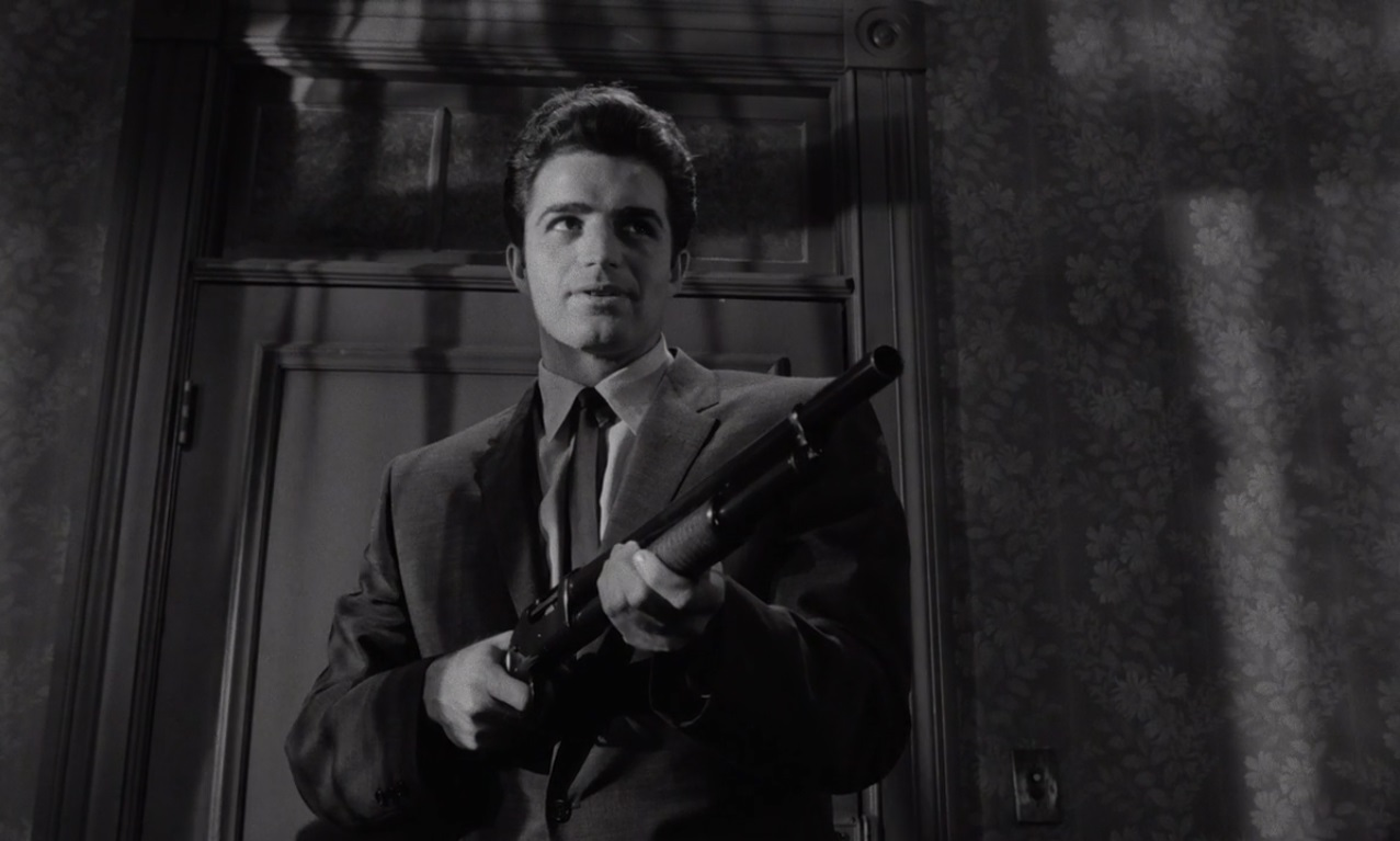 Vince Edwards in The Killing - trailer (cropped screenshot)